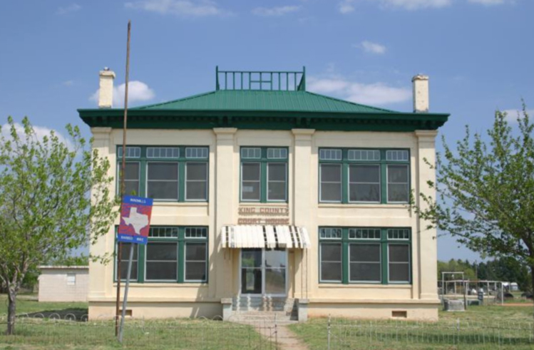 The 1914 King County Courthouse from the front.